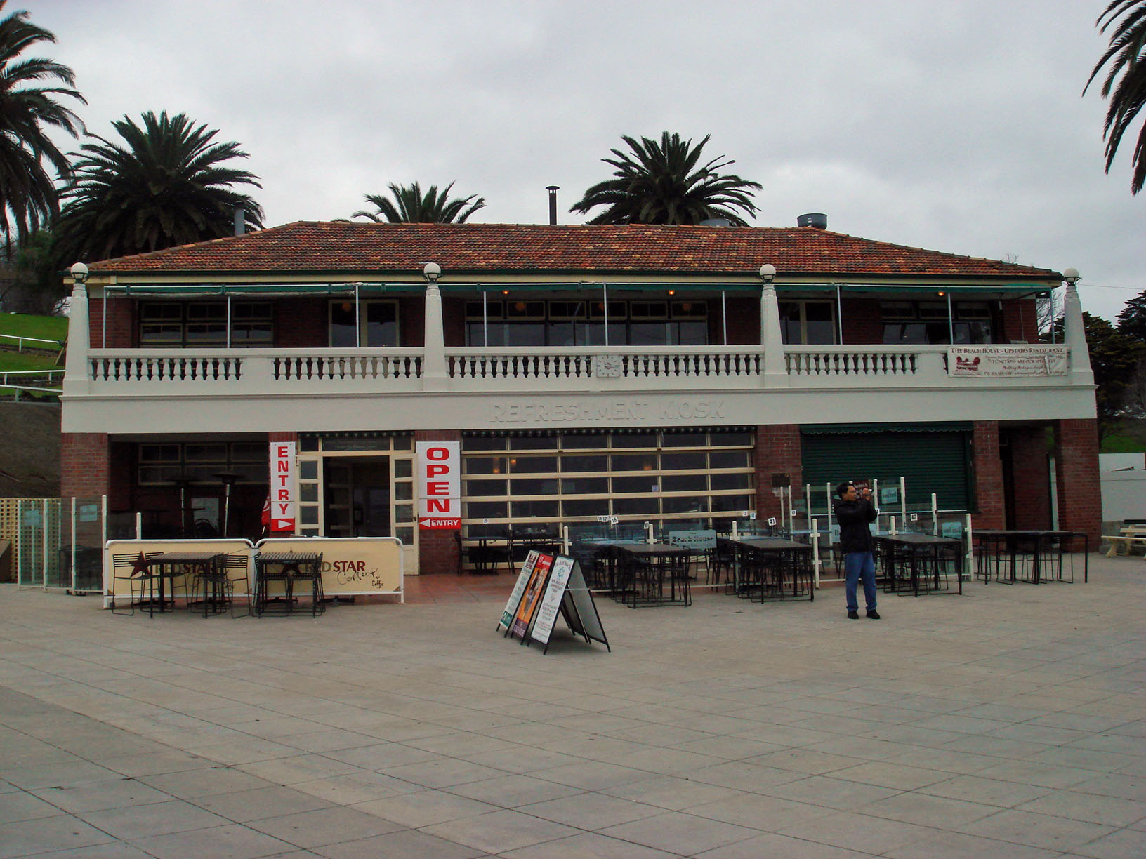 eastern beach kiosk - geelong Victoria AustraliaDSC01362